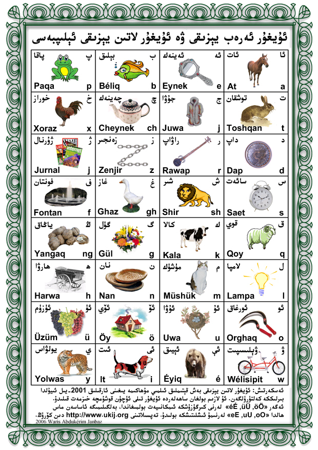 Comparative alphabets: Arabic-Script Uyghur, Latin-Script Uyghur; ئۇيغۇرچە / Uyghurche: Uyghur Ereb Yéziqi, Uyghur Latin Yéziqi sélishturma élipbesi